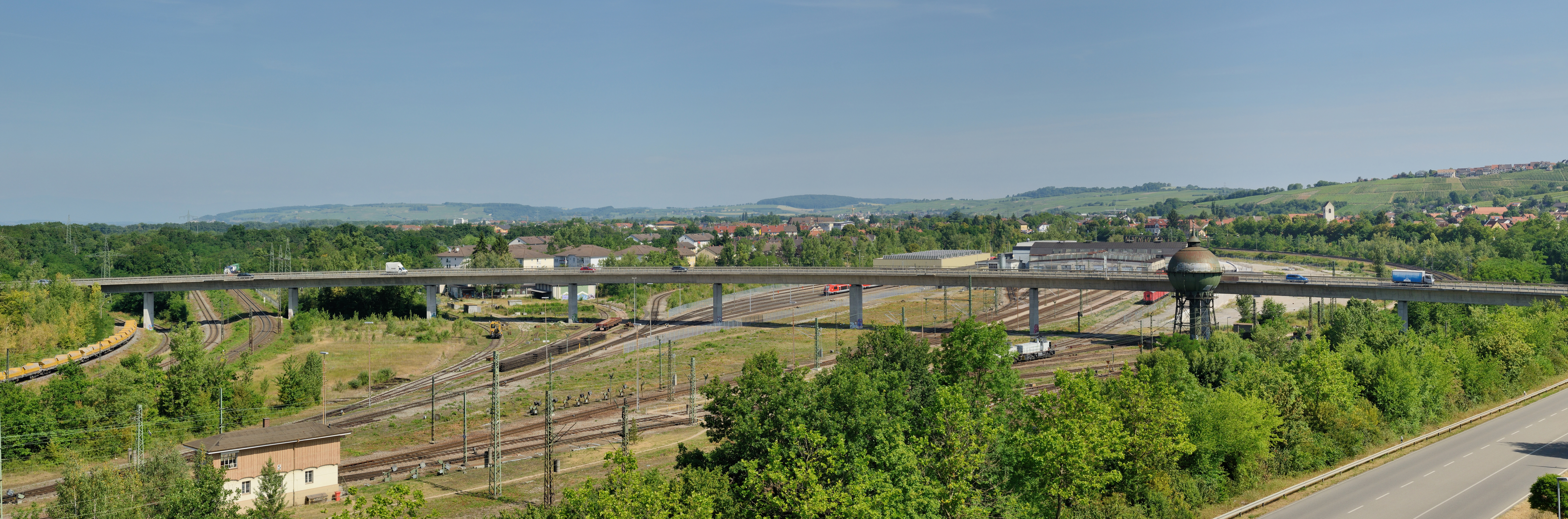 View from Vitra Slide Tower